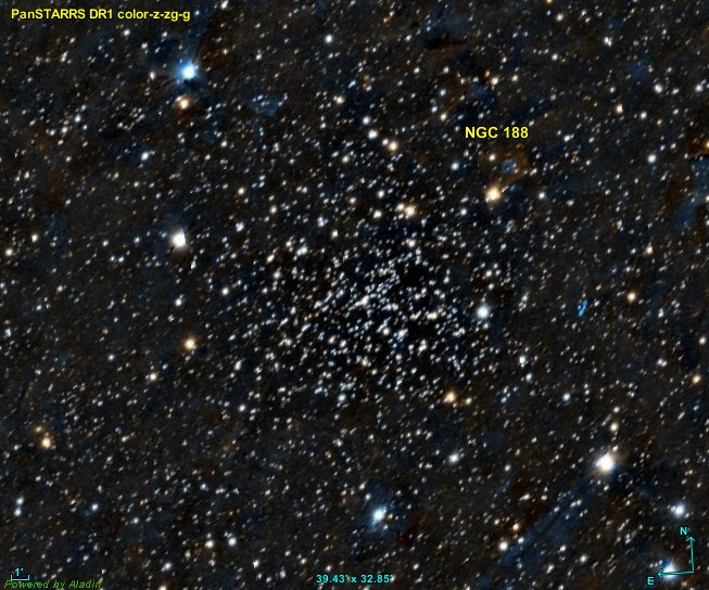 Image created using the Aladin Sky Atlas software from the Strasbourg Astronomical Data Center and Pan-STARRS (Panoramic Survey Telescope And Rapid Response System) public data.